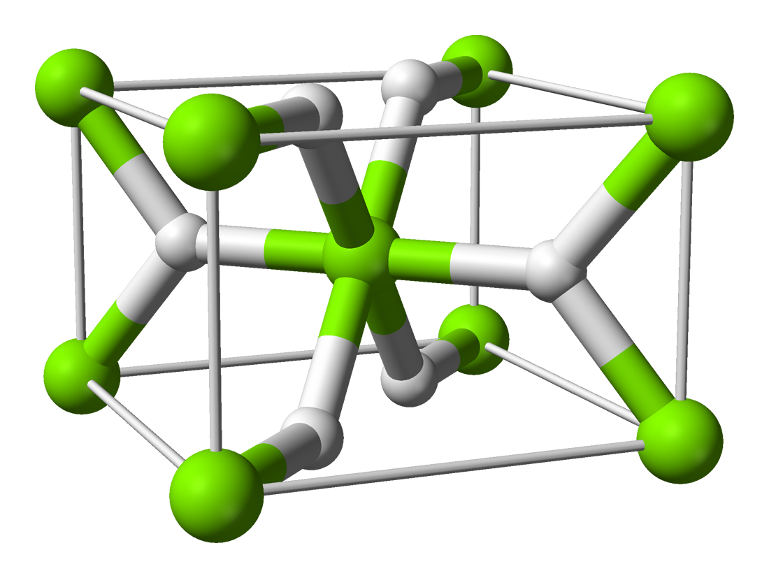 Ball-and-stick model of the unit cell of magnesium hydride, MgH2. X-ray crystallographic data from W. H. Zachariasen, C. E. Holley and J. F. Stamper Jnr (May 1963). "Neutron diffraction study of magnesium deuteride". Acta Cryst. 16 (5): 352-353. Image generated in Accelrys DS Visualizer.